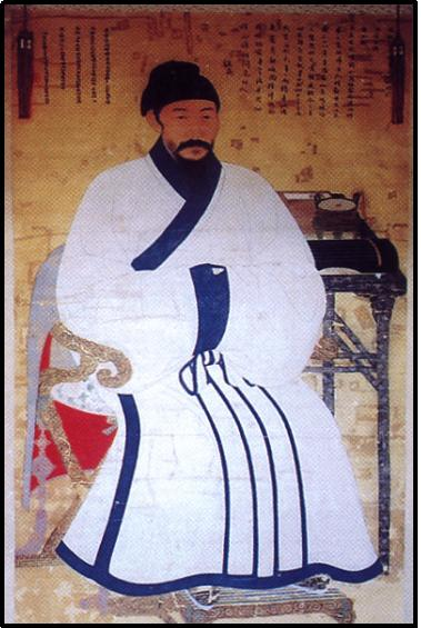 picture of Yi Jae-hyun